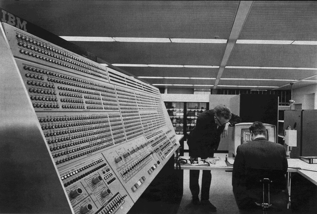 This image of the System/360 Model 91 was taken by NASA sometime in the late 60s.